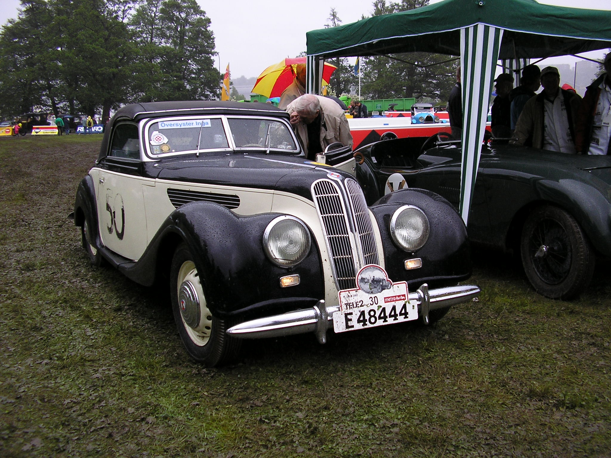 A EMW (Eisenacher Motoren Werke, aka East German BMW) photographed by myself at Prins Bertil Memorial in Stockholm, Sweden. Actually a 1941 BMW 327-2. Notice the BMW like grille and the red and white logo.